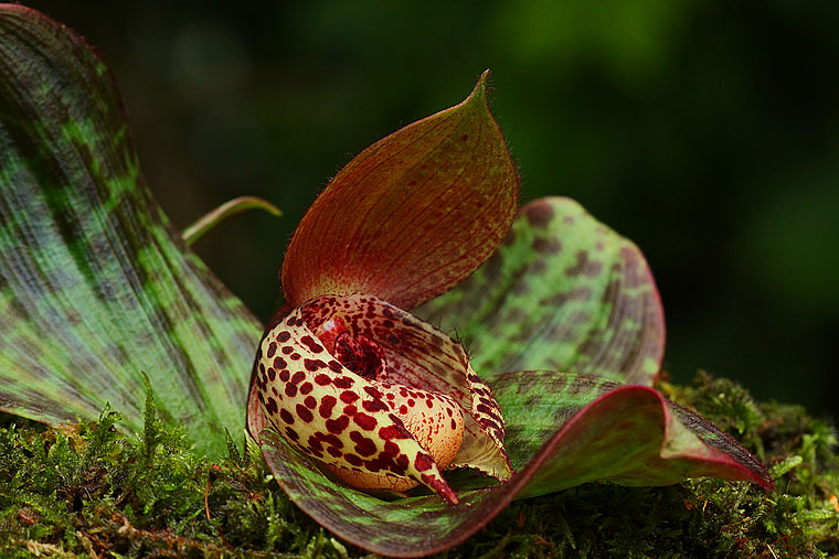 Cypripedium lichiangense